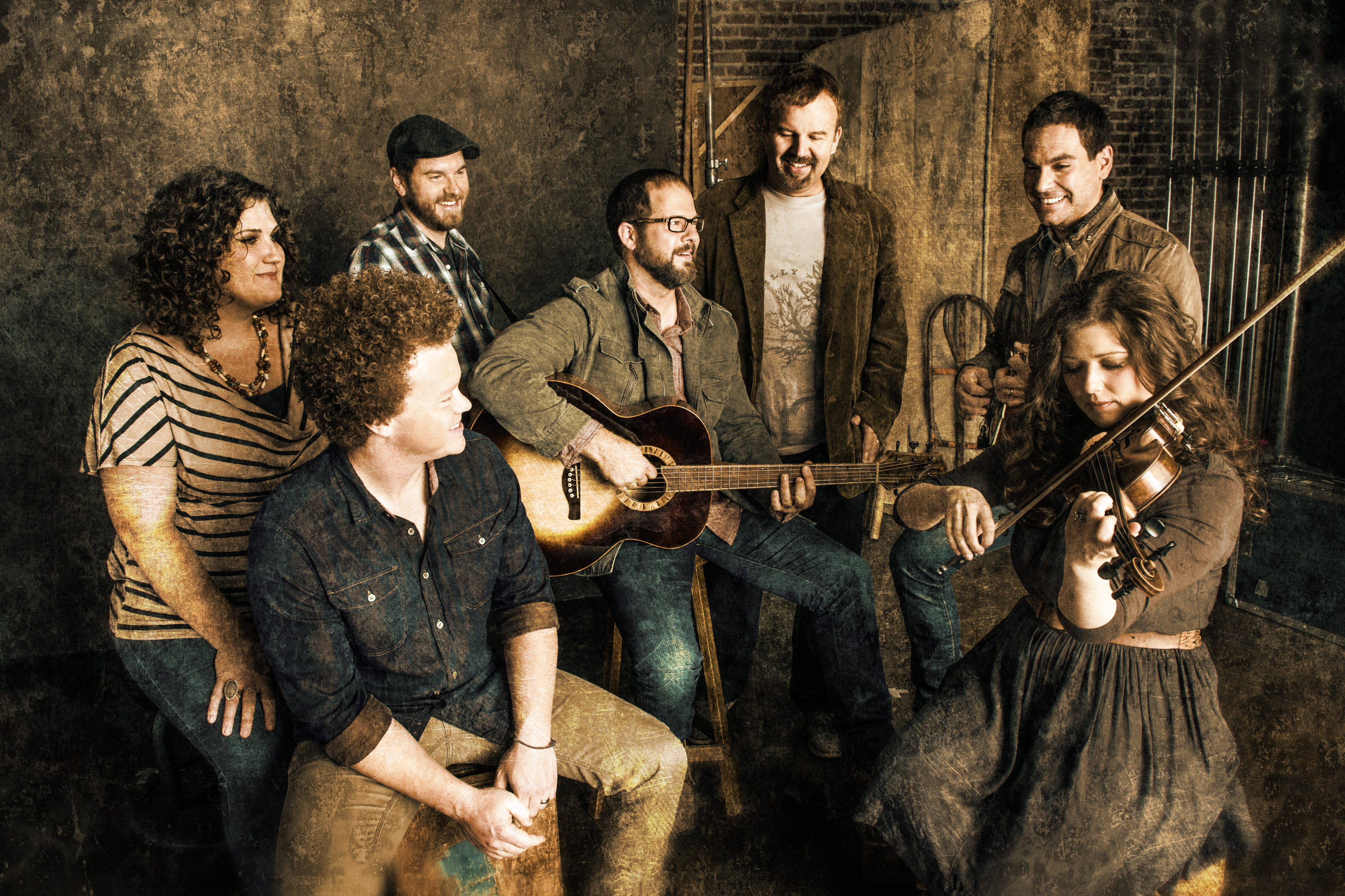 Casting Crowns 2013 official press photo from the album, The Acoustic Sessions: Volume One